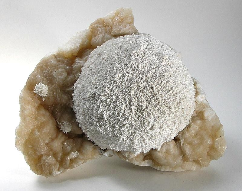 Mordenite Locality: Jalgaon District, Maharashtra, India (Locality at ) Size: 17.9 x 14.9 x 9.9 cm. Mordenite is one of the rarer zeolite minerals. So when it comes to a ball of it 10 cm across - well, what can I say? This thing is just too impressive for words. Not only is it huge, complete and pristine, but it sits beautifully on a field of creamy stilbite crystals.